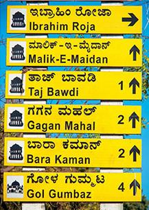 Bijapur tourist spots